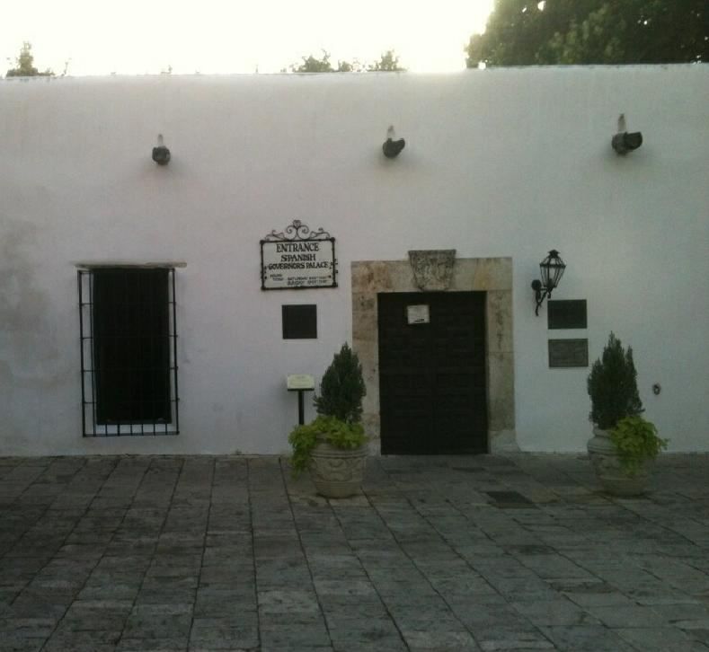 Spanish Military Governors Palace exterior in San Antonio, Headquarters for Presidio San Antonio de Bexar